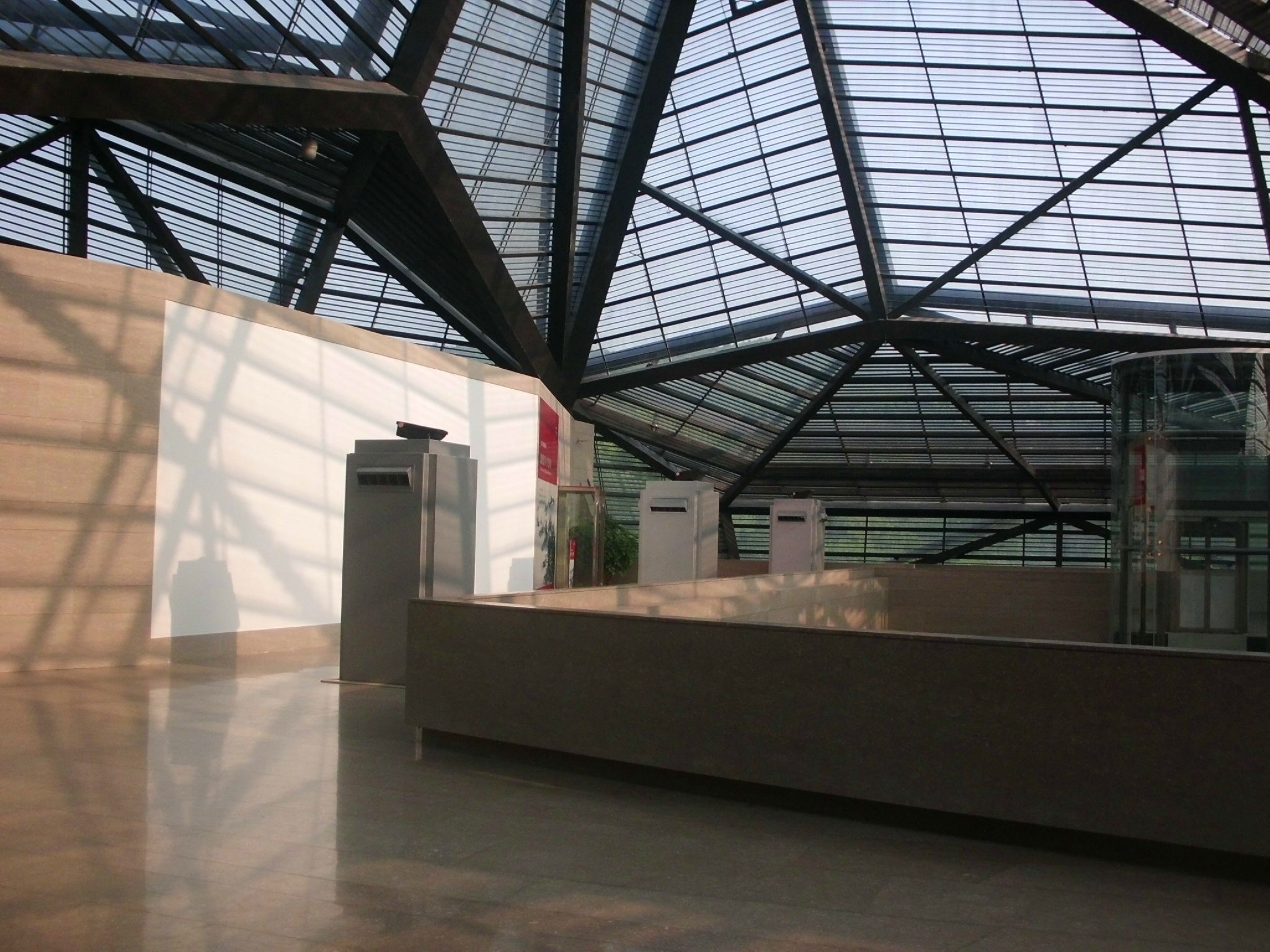 Zhejiang Art Museum